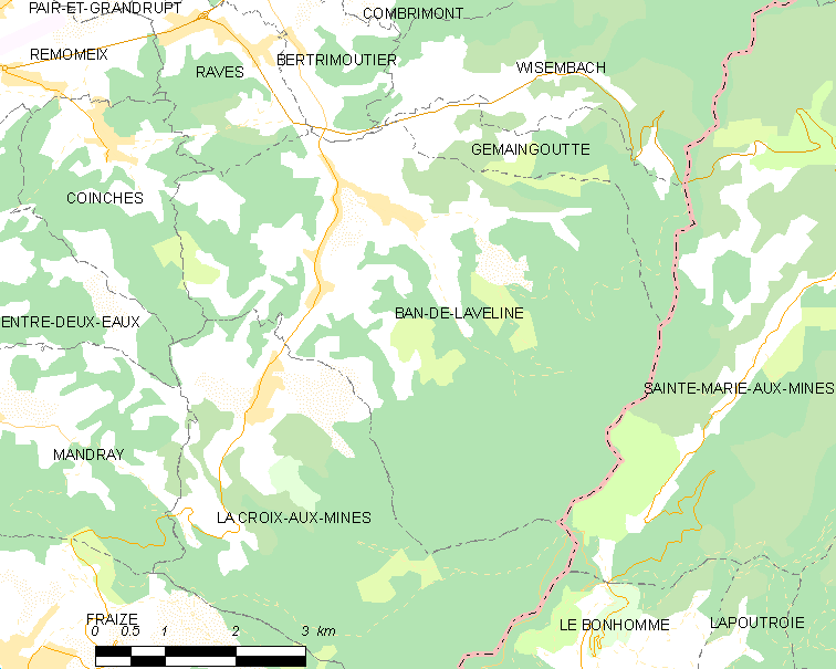 Map of French municipality Ban-de-Laveline